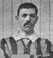 Tommy Spicer while at Brentford FC in 1902/03.